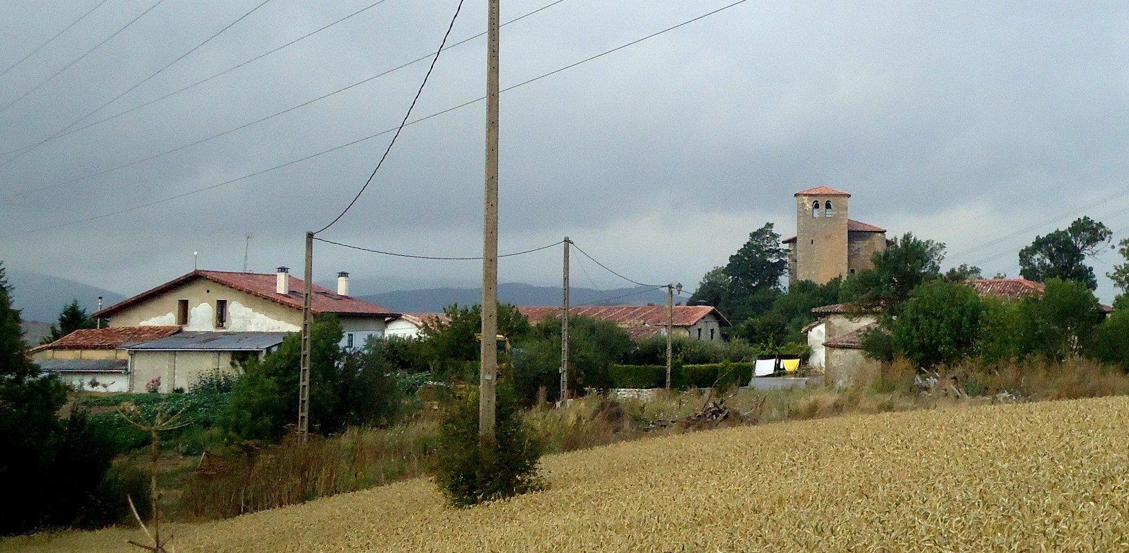 Zirao village (Arratzu-Ubarrundia, Araba, Basque Country)